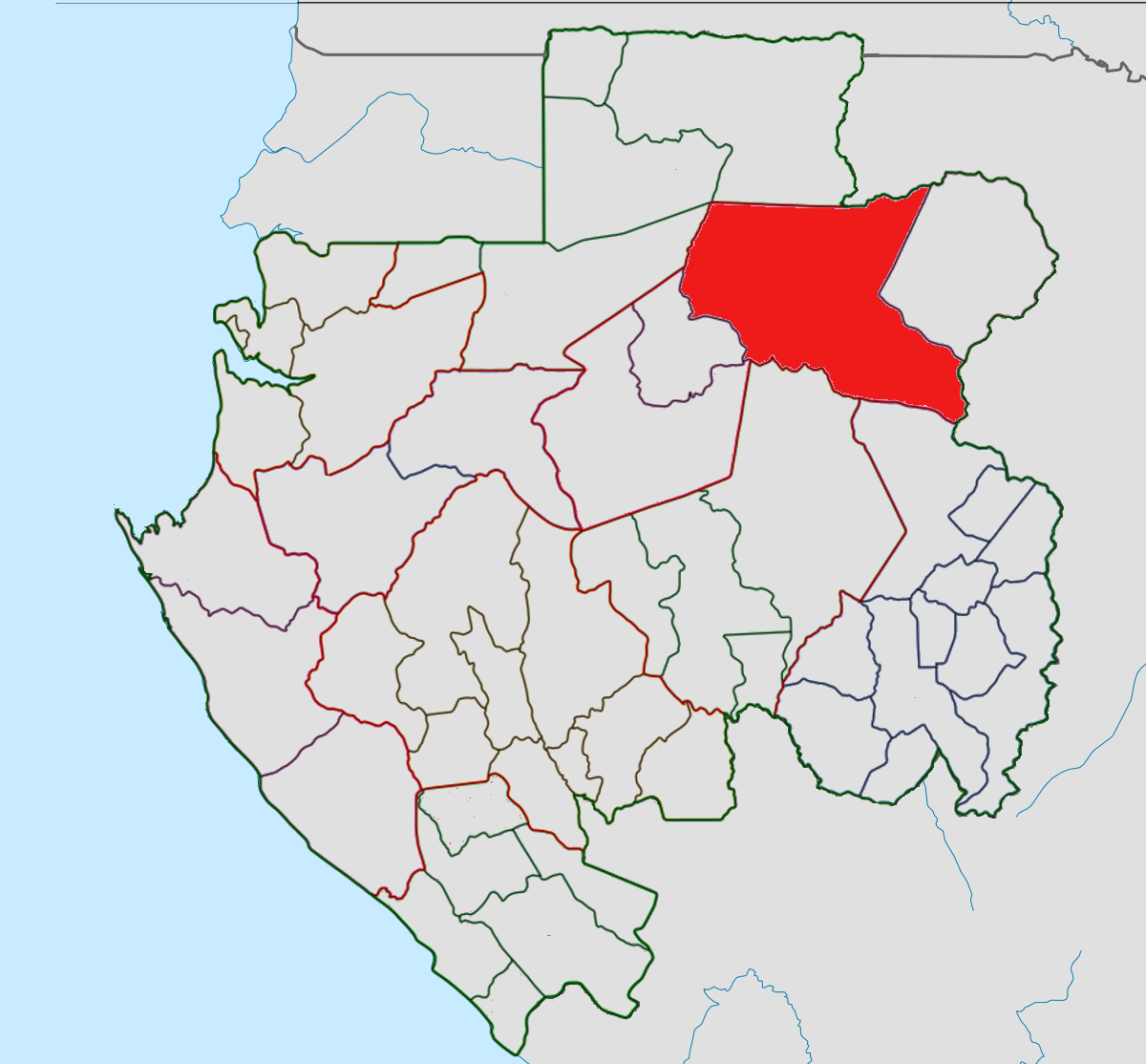 map of ivindo department